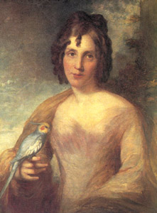 Portrait of Elizabeth Gould (1804–1841); She is holding an Australian cockatiel (Nymphicus hollandicus)